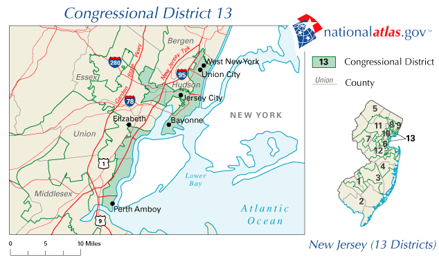 NJ's 13th US Congressional District. from Category:Congressional districts of New Jersey Category:Congressional districts of New Jersey Category:New Jersey maps